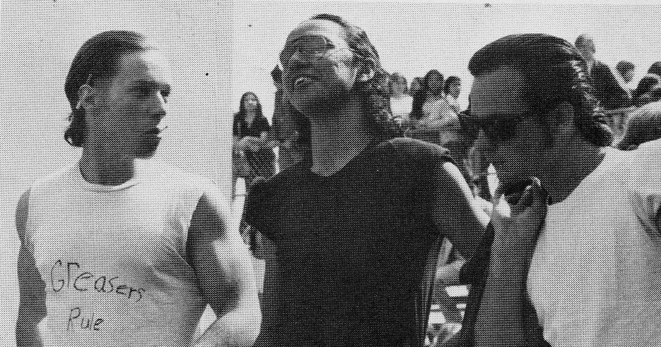 Mexican-American teens at Venice Senior High school. [Ref: Venice Senior High School yearbook: The Gondolier. 1974]